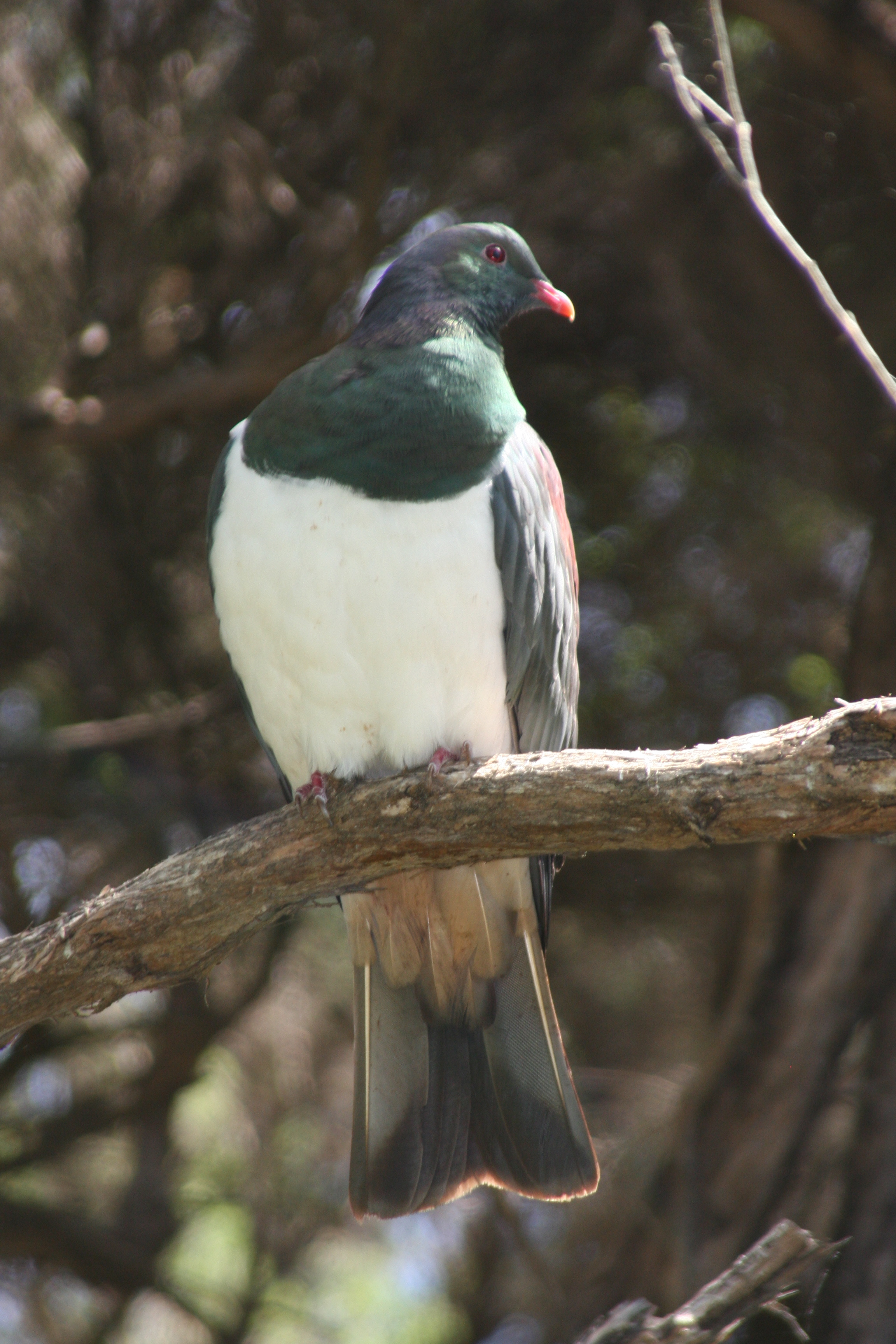 A Kereru (also known as New Zealand Pigeon) on Kapiti Island, New Zealand.